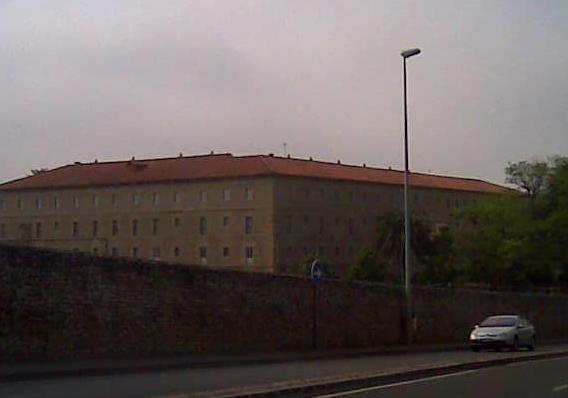 Monte Corbán Seminary (Santander, Cantabria)